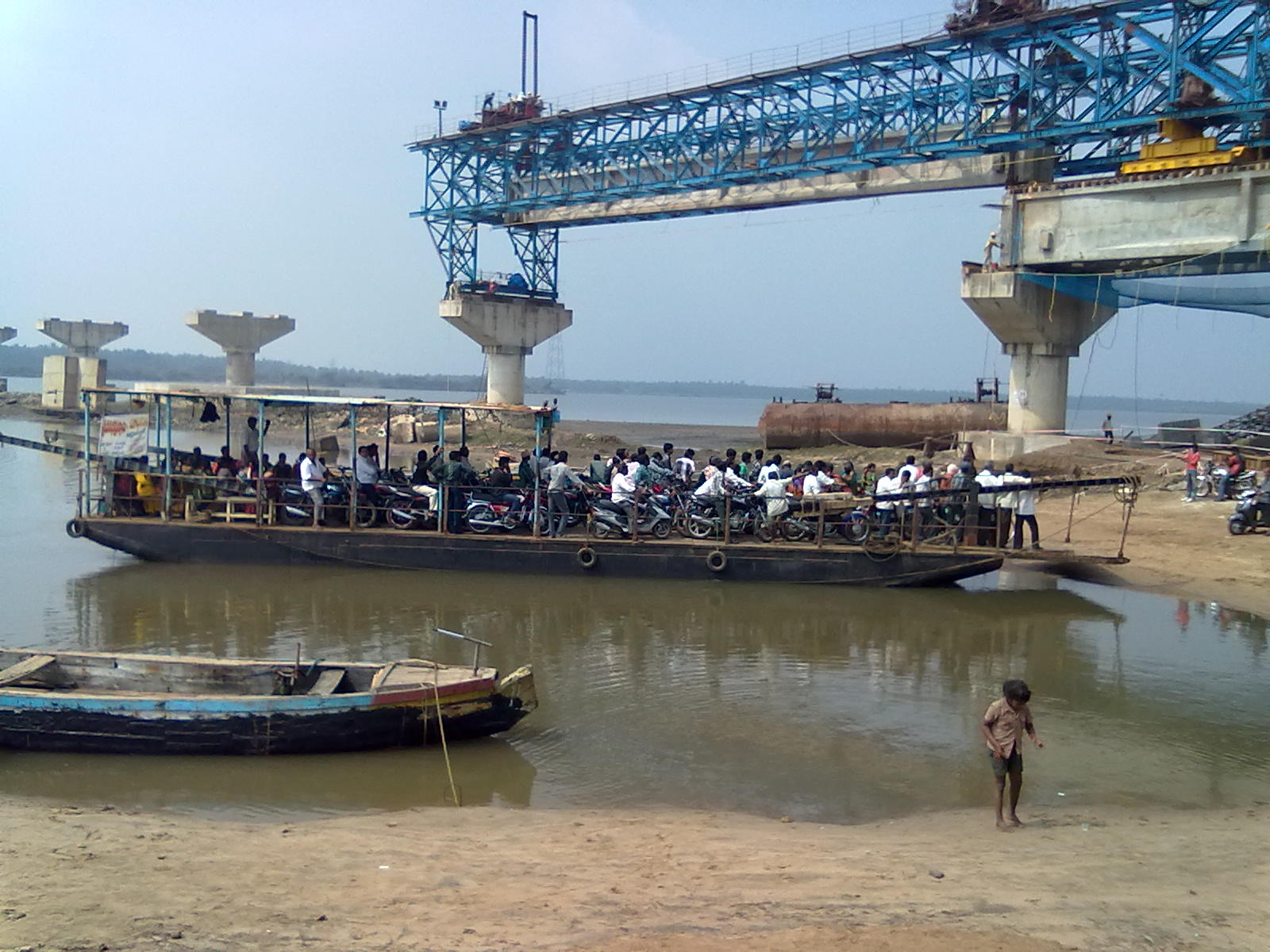 Bridge on river Godavari at Bodasakurru near Amalpuram, East Godavari district